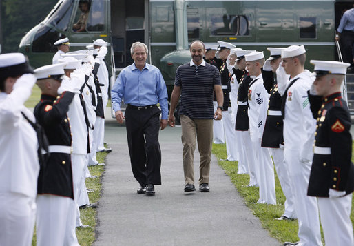 President George W. Bush walks with Crown Prince Sheikh Mohammed bin Zayed Al Nahyan of Abu Dhabi, UAE, through an honor guard upon his arrival to Camp David, Thursday, June 26, 2008 in Camp David, Md. White House photo by Eric Draper